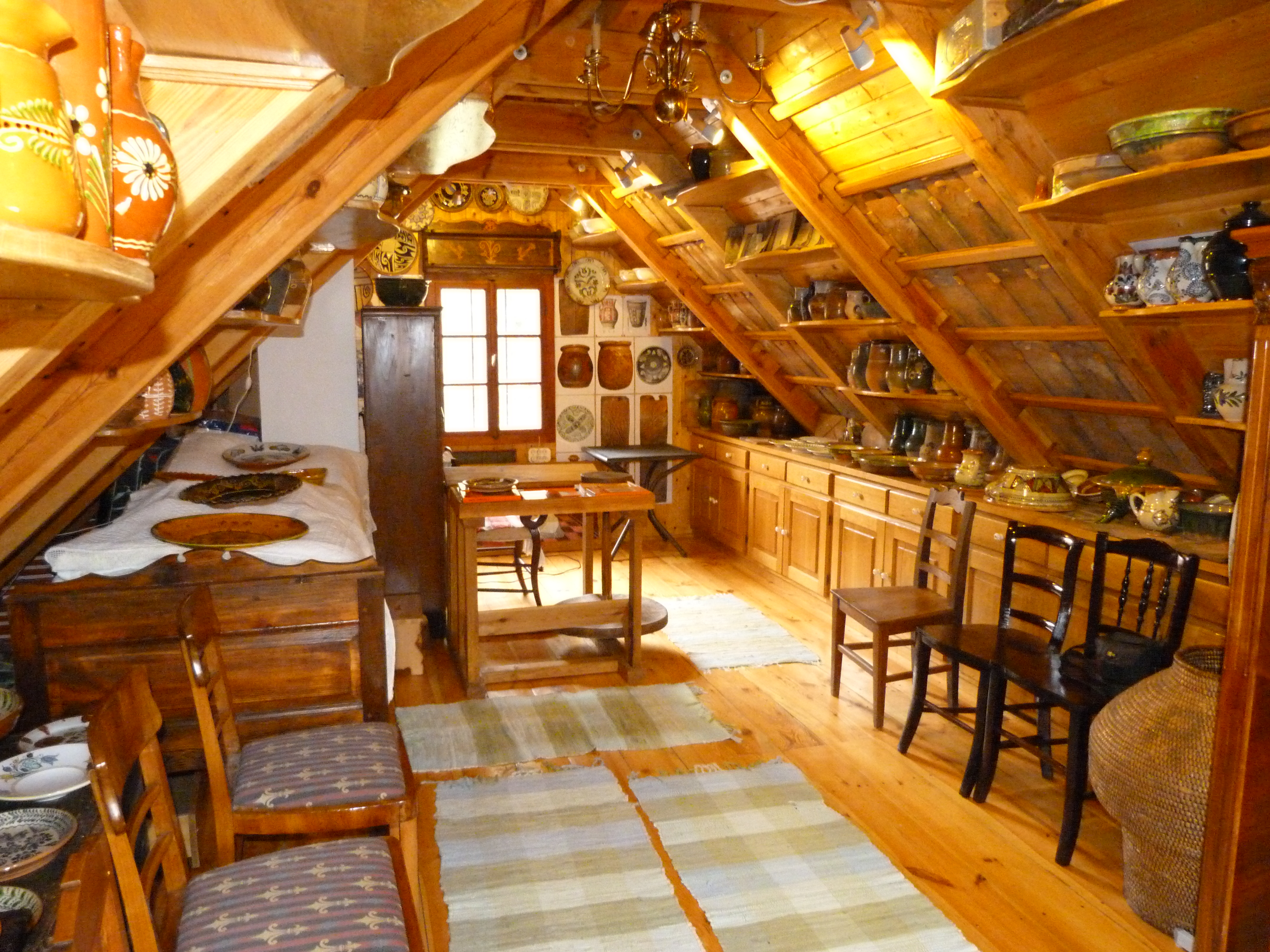 Live on the 25th of March, 2015. In the Sindü Museum, Velemér, Hungary. Tags: Sindü Sindü Museum Géza Varga Sources